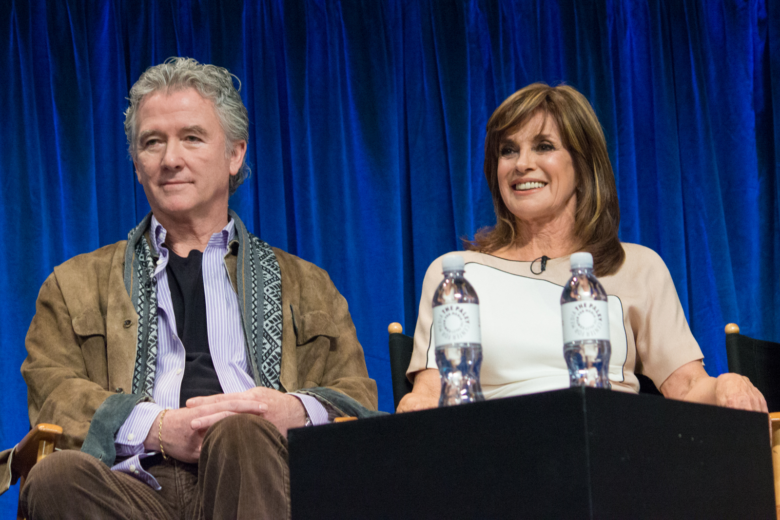 Patrick Duffy and Linda Gray at the PaleyFest 2013 forum on the TV show Dallas